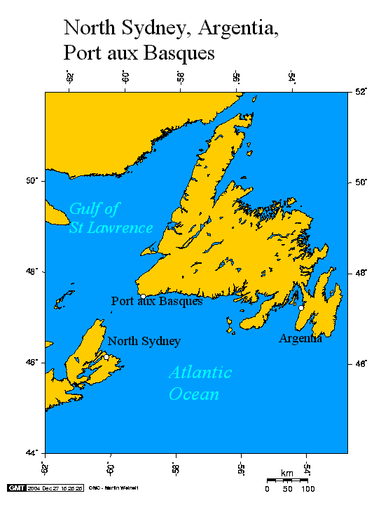 Argentia and Port aux Basques Newfoundland and North Sydney Nova Scotia This map created using this online map creation tool. The following co-ordinates were used for the longitude and latitude: -53.9864,47.3022,Argentia -59.1364,47.5721,Port aux Basques -60.2524,46.2065,North Sydney This map uses the Lambert Azimuthal projection. See also thumb|left|Avalon Peninsular thumb|left|Orthographic projection centred on the Avalon Peninsular